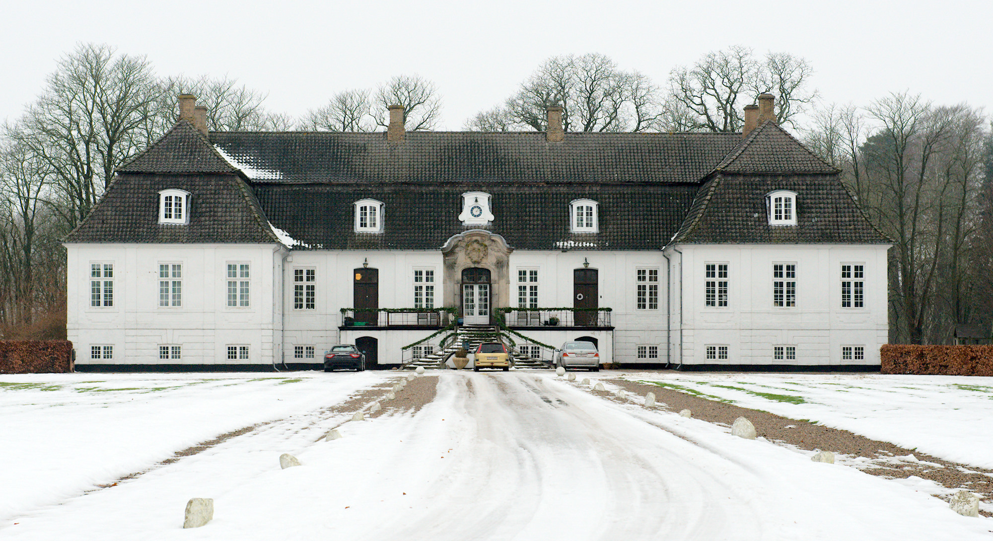 Margaard estate